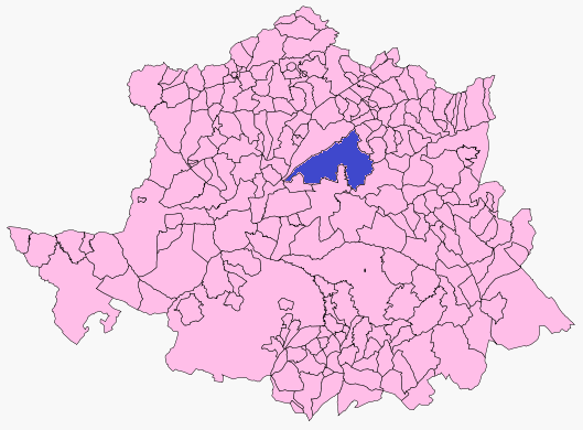 Malpartida de Plasencia